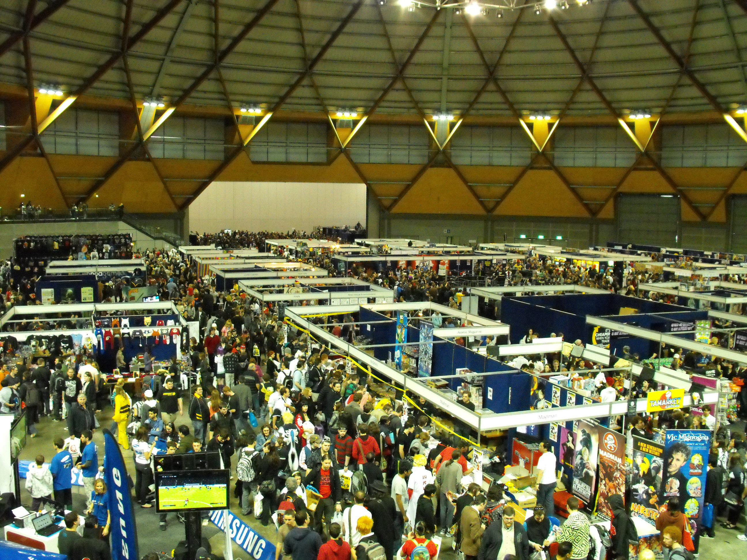 The exhibition floor of the Supanova Pop Culture Expo during the Sydney 2010 event. The event is held inside The Dome at Sydney Olympic Park. The large opening in the background leads to the theatres and guest autograph areas